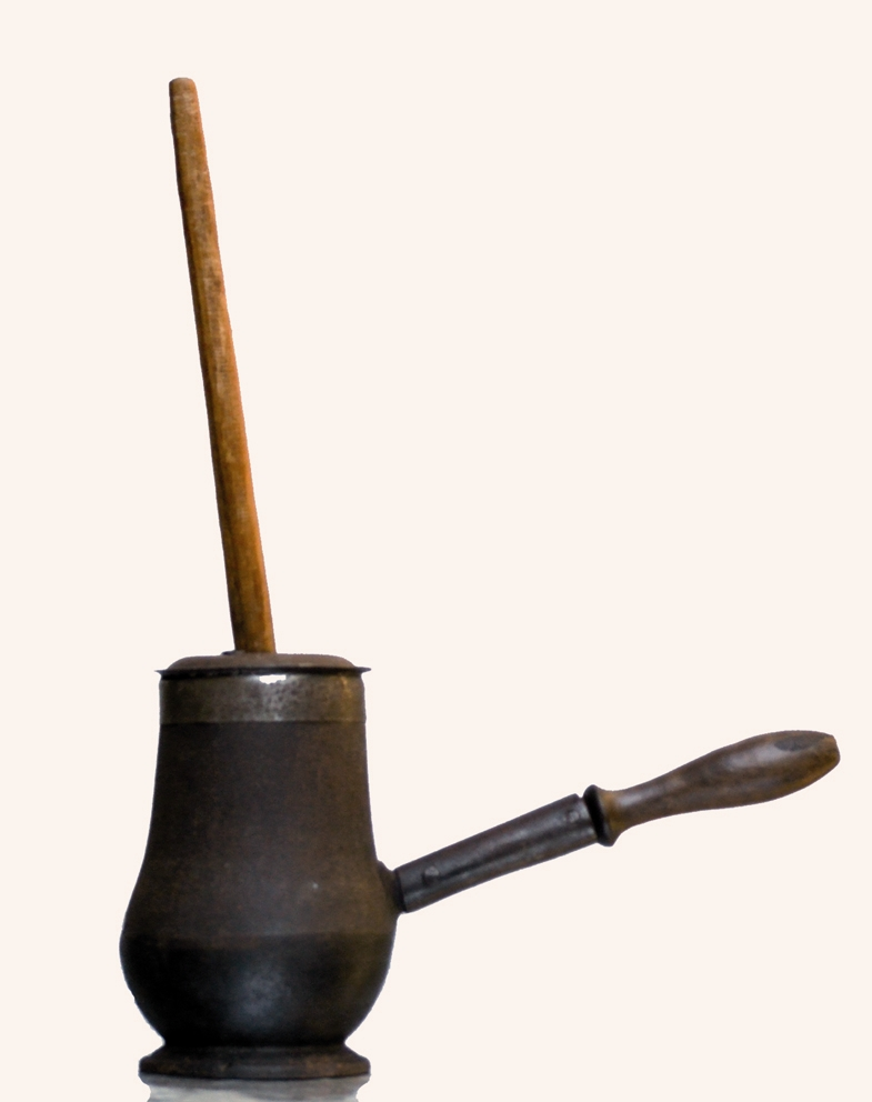 Historic chocolatera from Spain, image from the Museum of Ethnology